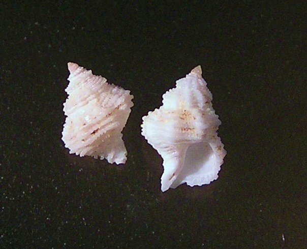 Mipus crebrilamellosus (Sowerby, G.B. III, 1913), a murex snail from the family Muricidae; South Africa